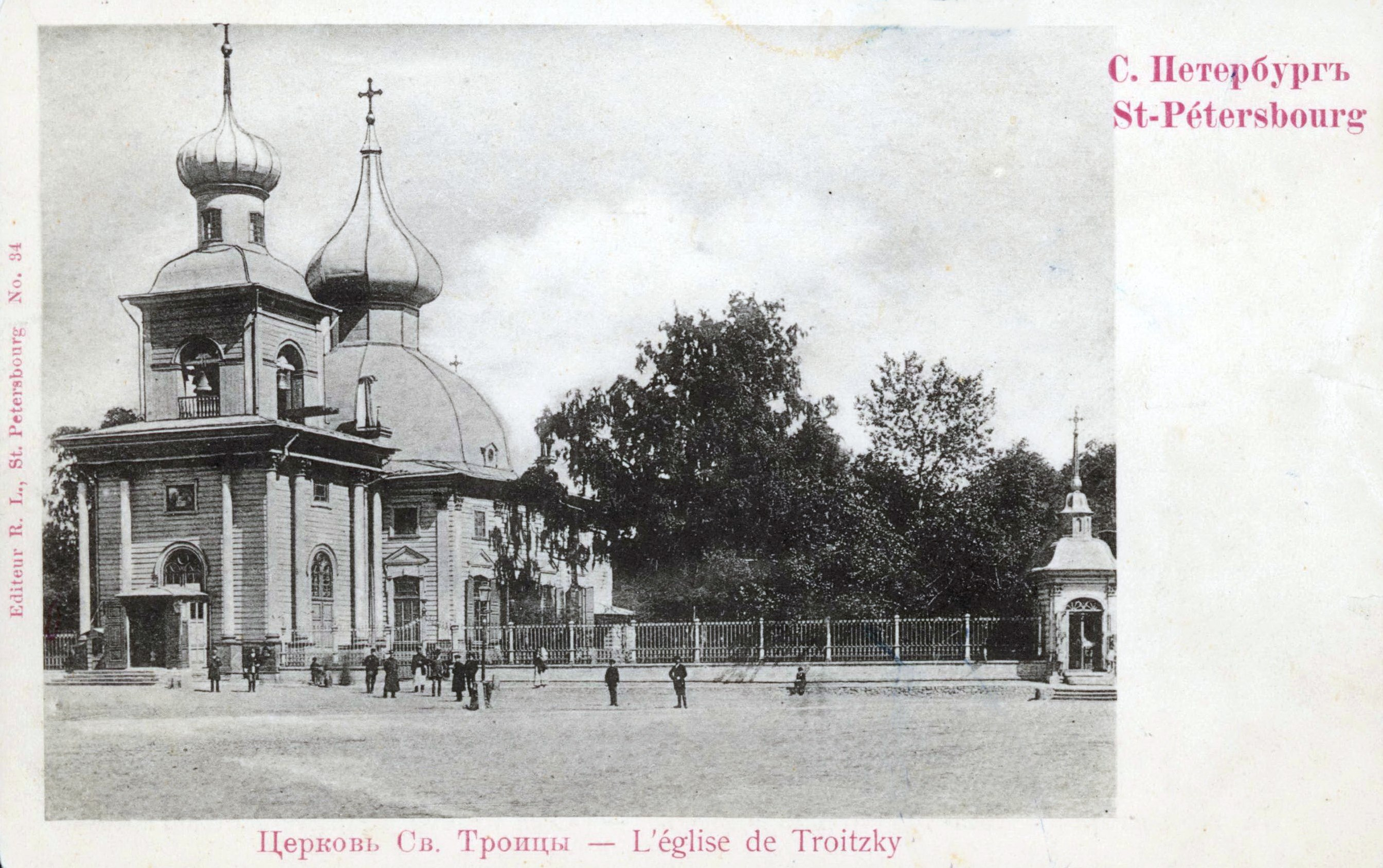 Saint Petersburg (Russia), Troitskaia Square (Petrogradsky district).